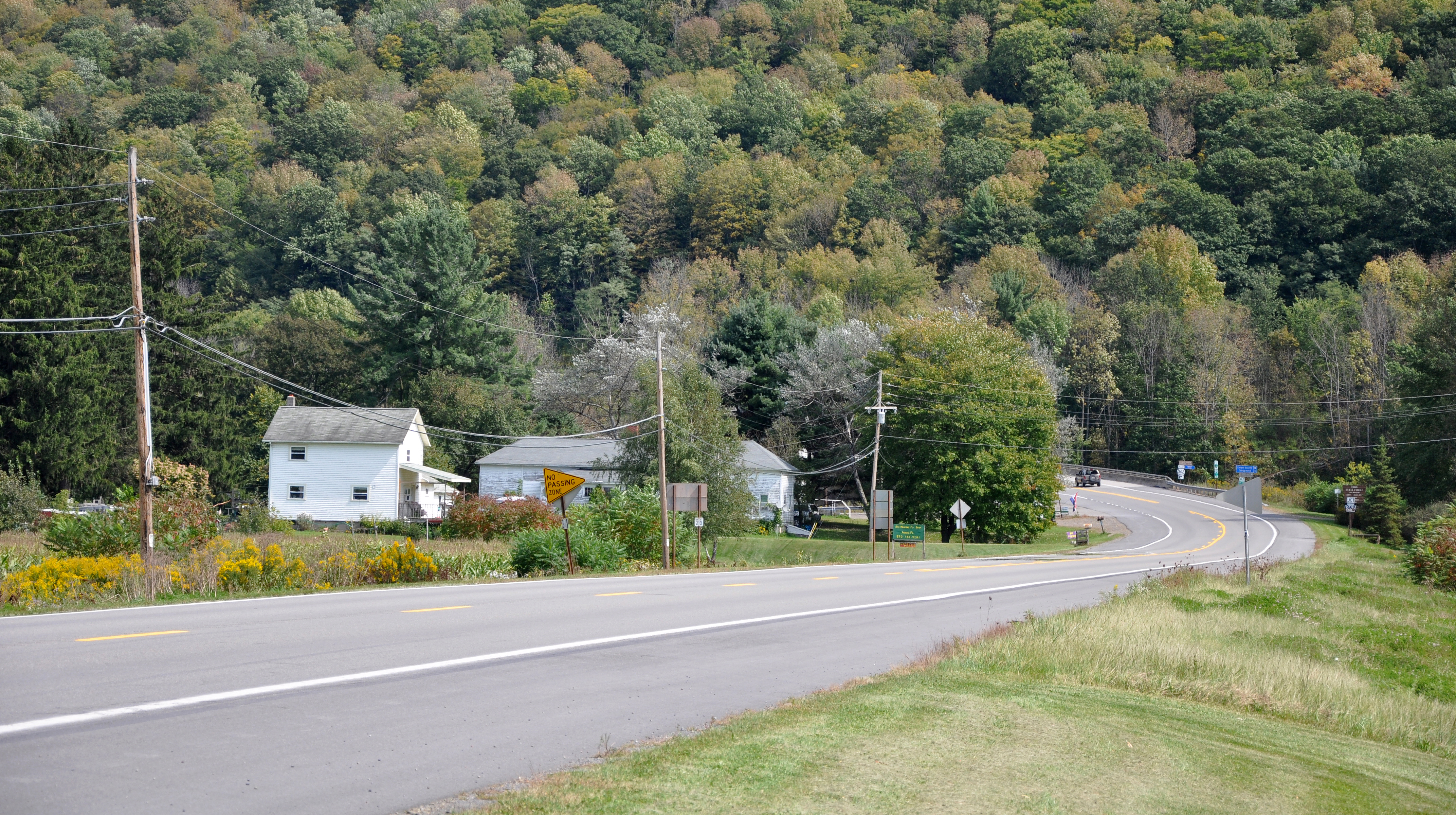 Scattered houses appear along U.S. Route 6 at Ansonia in the U.S. state of Pennsylvania. The highway curves over Marsh Creek and runs along the base of a highland in the Tioga State Forest.